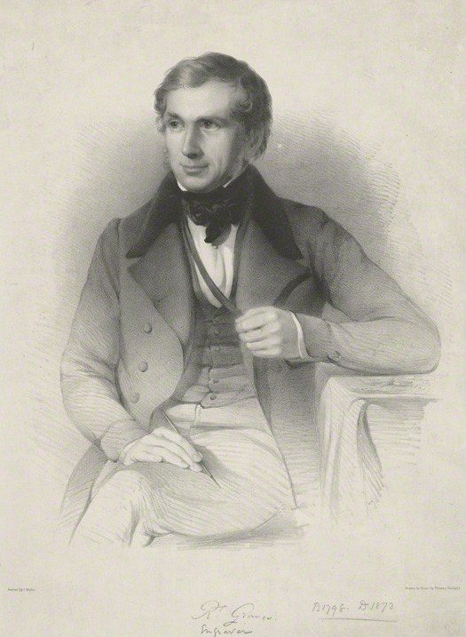 Portrait of Robert Graves (1798–1873), English line engraver.